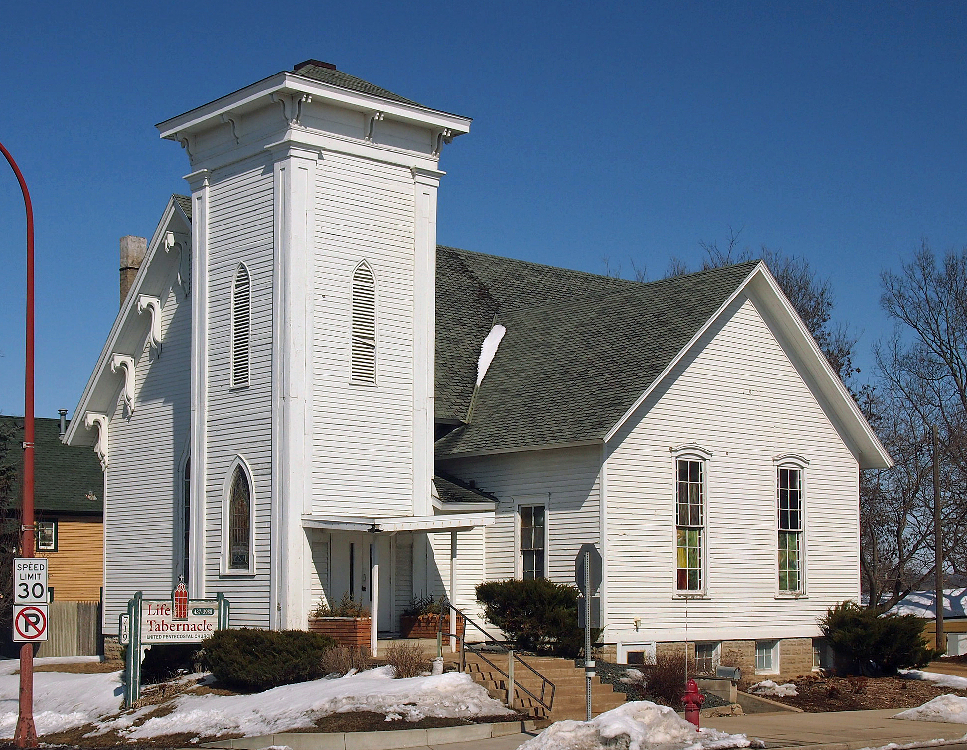 Hastings Methodist Episcopal Church, 719 Vermillion St, Hastings, Minnesota, USA. Viewed from the southwest.